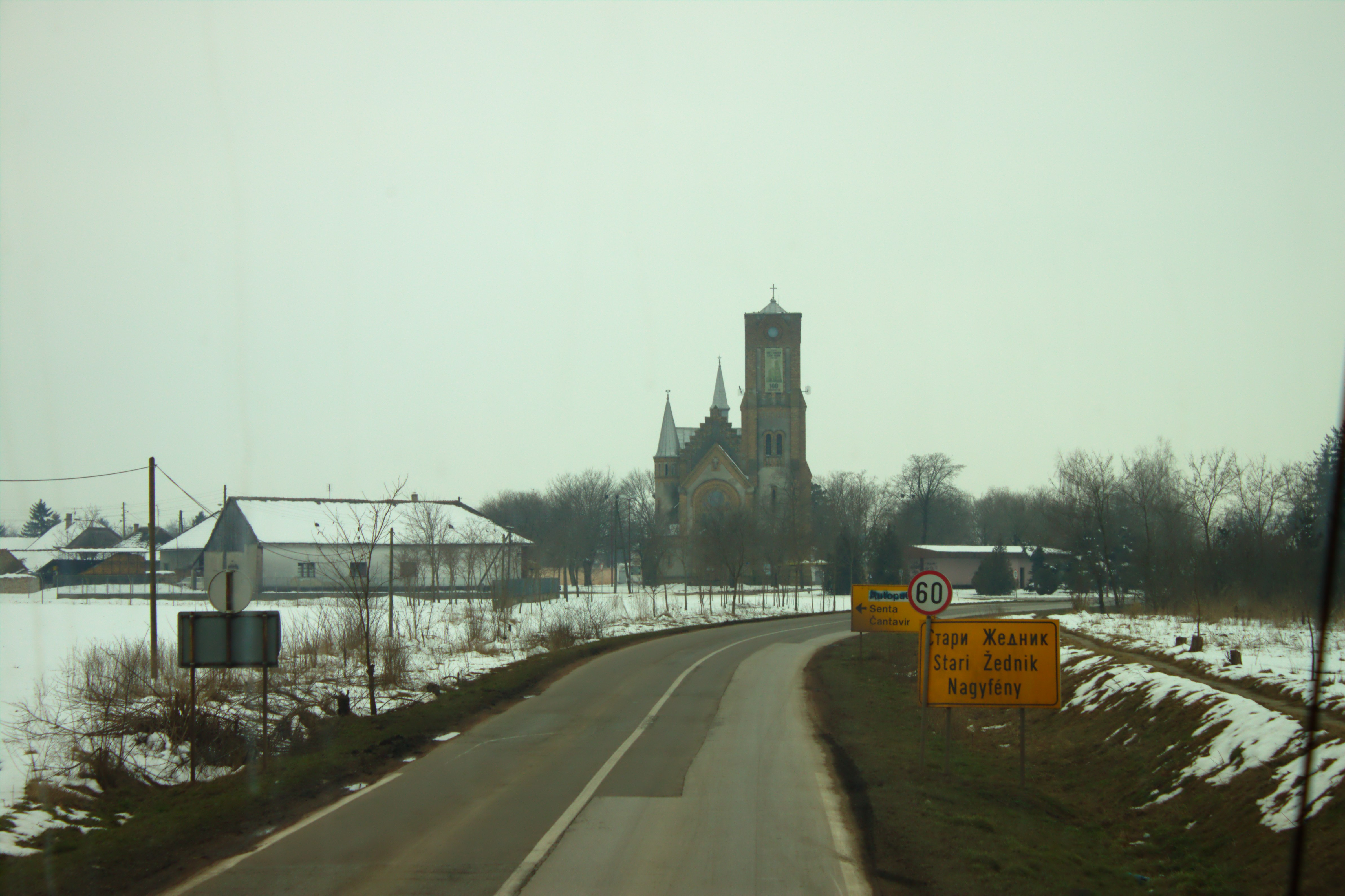 Arrival to the town of Stari Žednik from Subotica, Vojvodina, Serbia